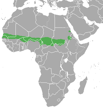 MAP